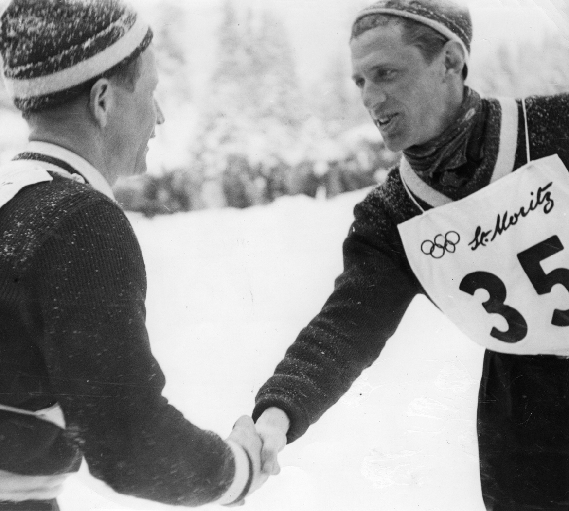 Birger Ruud congratulates Petter Hugsted in St. Moritz 1948